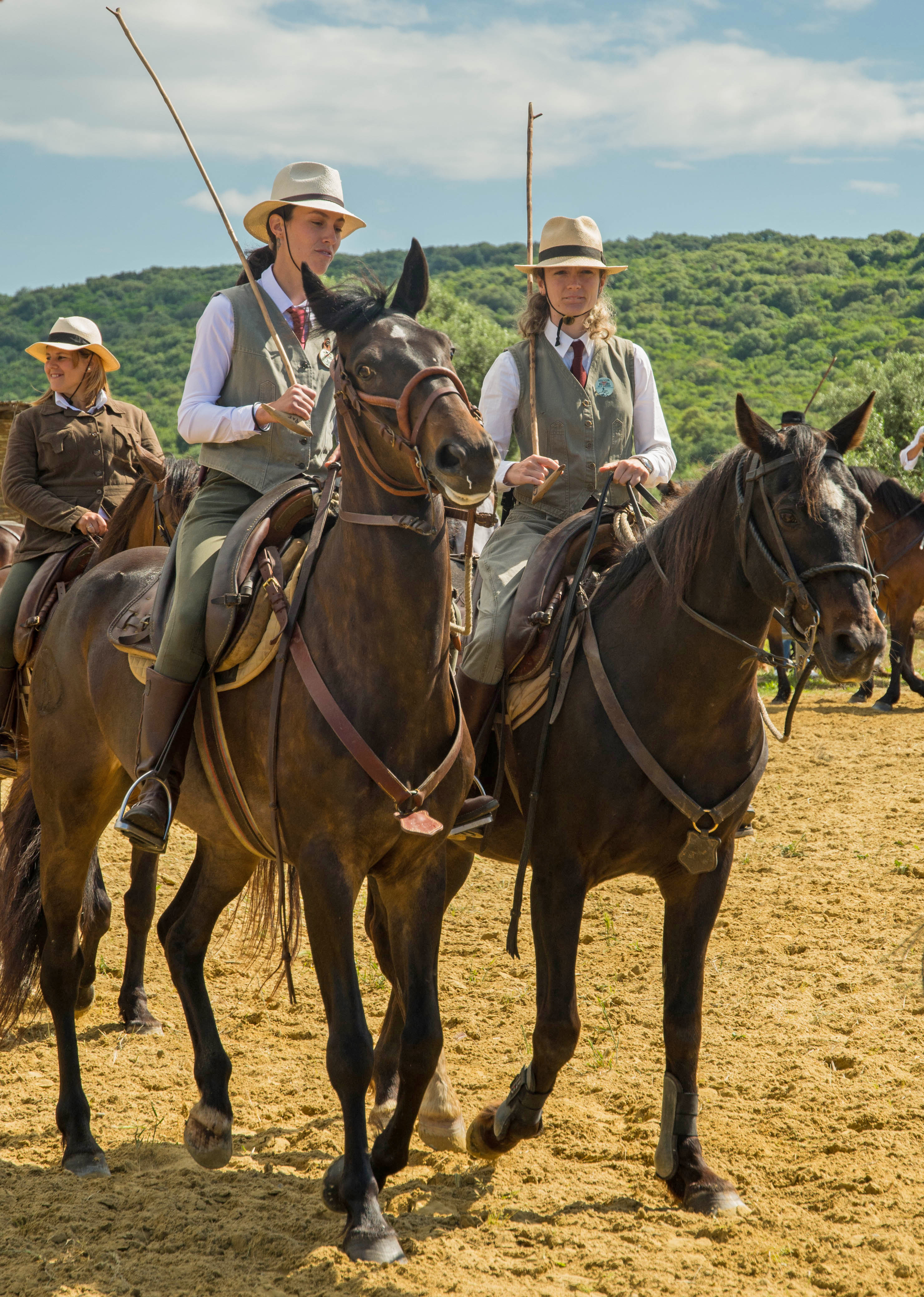 Butteri in the Tuscan Maremma